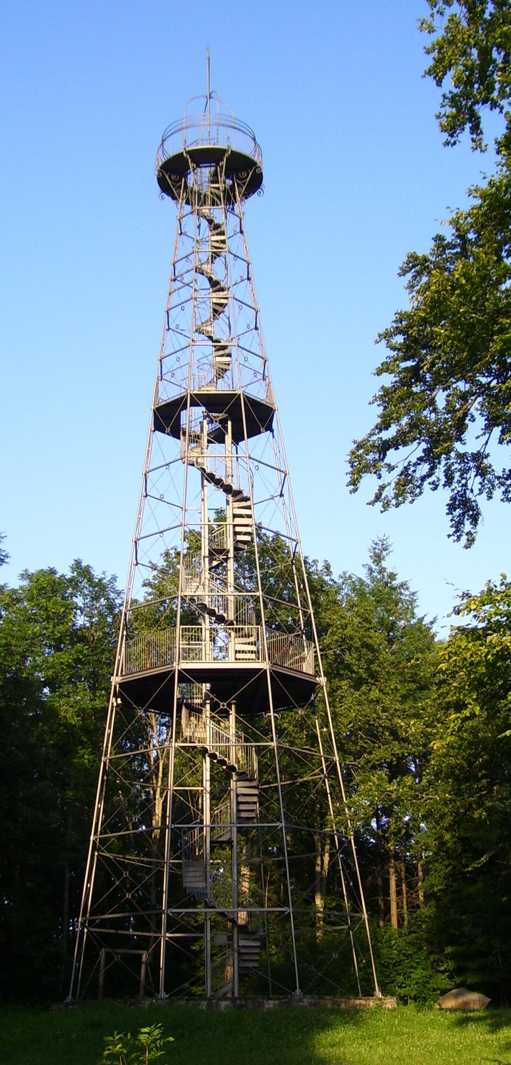 Wanne Observation Tower at Villingen-Schwenningen, photographed by myself on July 26th, 2007.